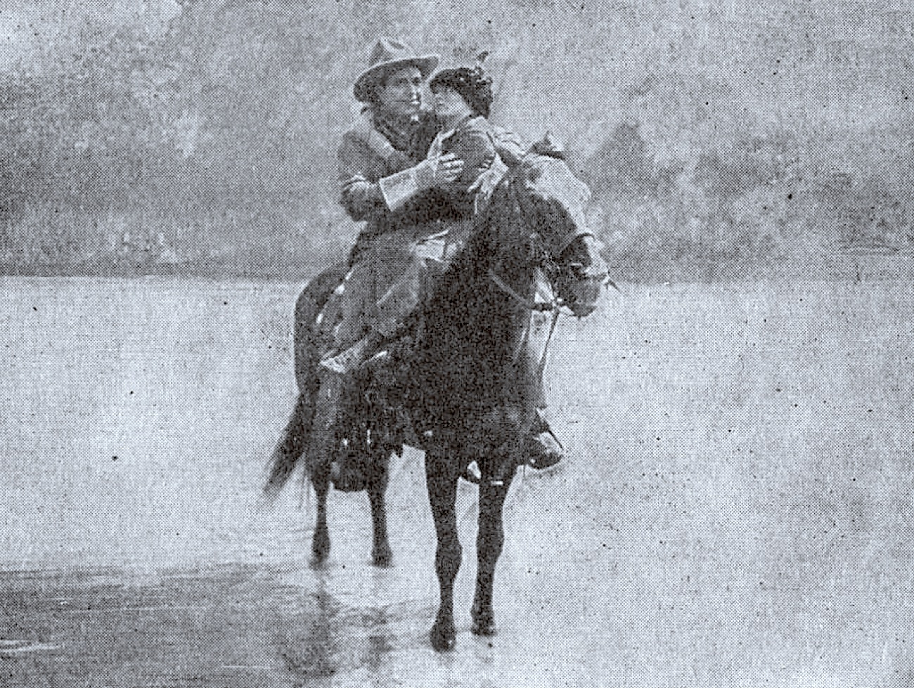 The Virginian is a 1914 film based upon the novel The Virginian by Owen Wister, and starring Dustin Farnum as the Virginian. This is a scene from the film, originally titled 'The Virginian rescues Molly.' (Winifred Kingston)